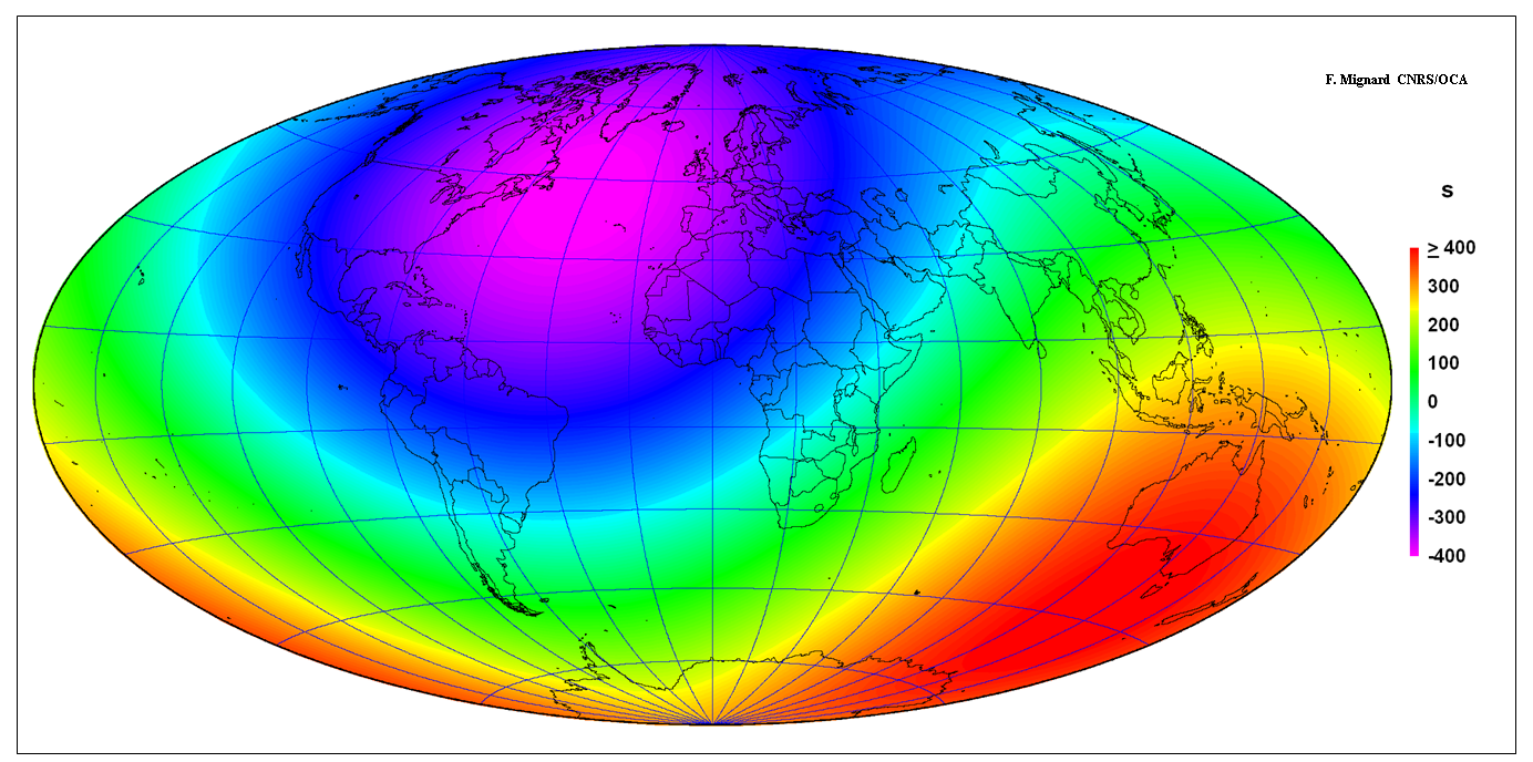 Offset between the topocentric and geocentric second contact of Venus with the solar disk for the Venus transit of June 2012